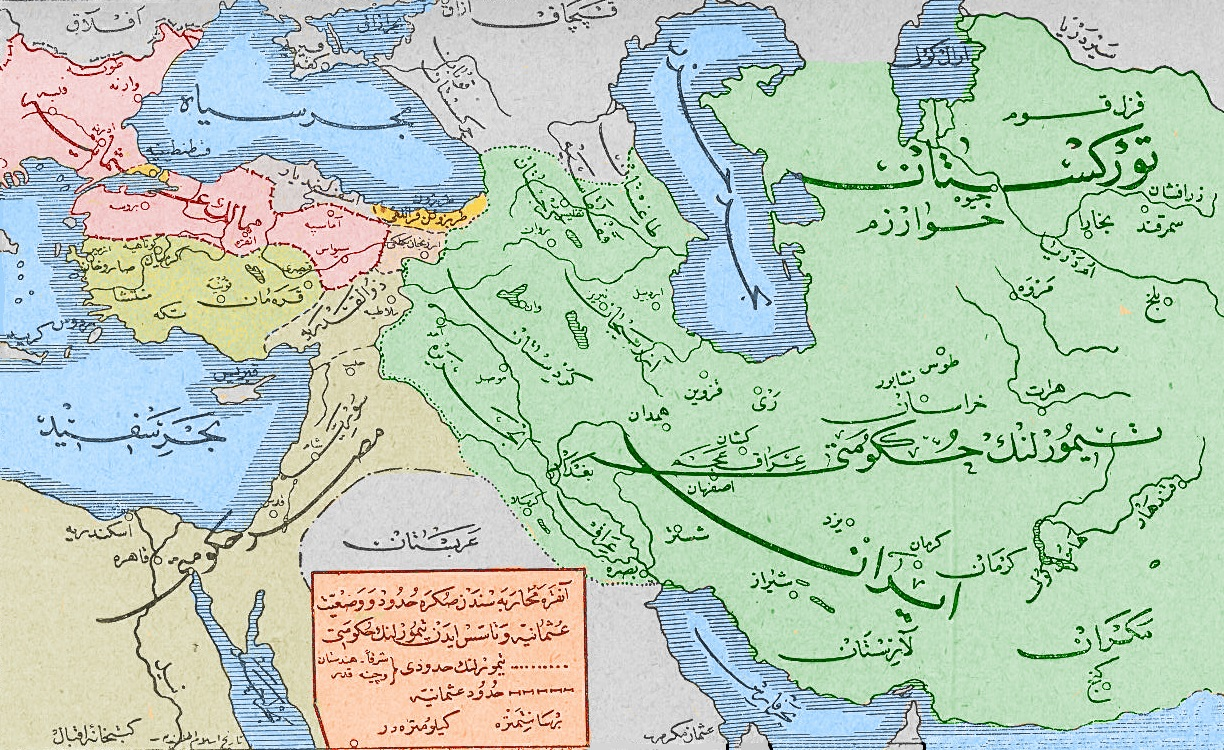 Map in Ottoman Turkish showing the boarders of the Timurid Empire and the Anatolian Turkmen beyliks Tamerlane Recreated after the ottoman defeat at the battle of Ankara.